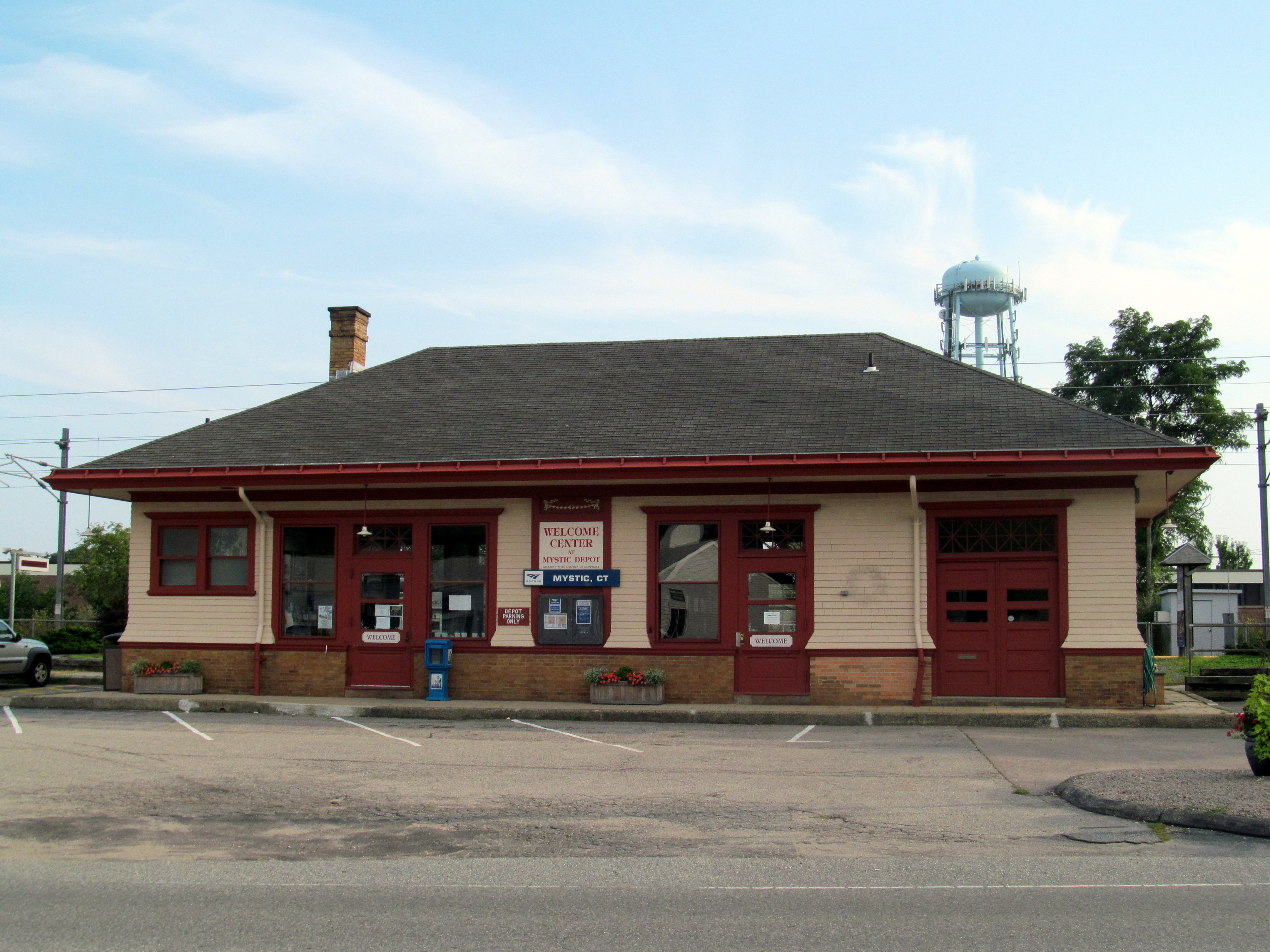 South elevation of Mystic depot